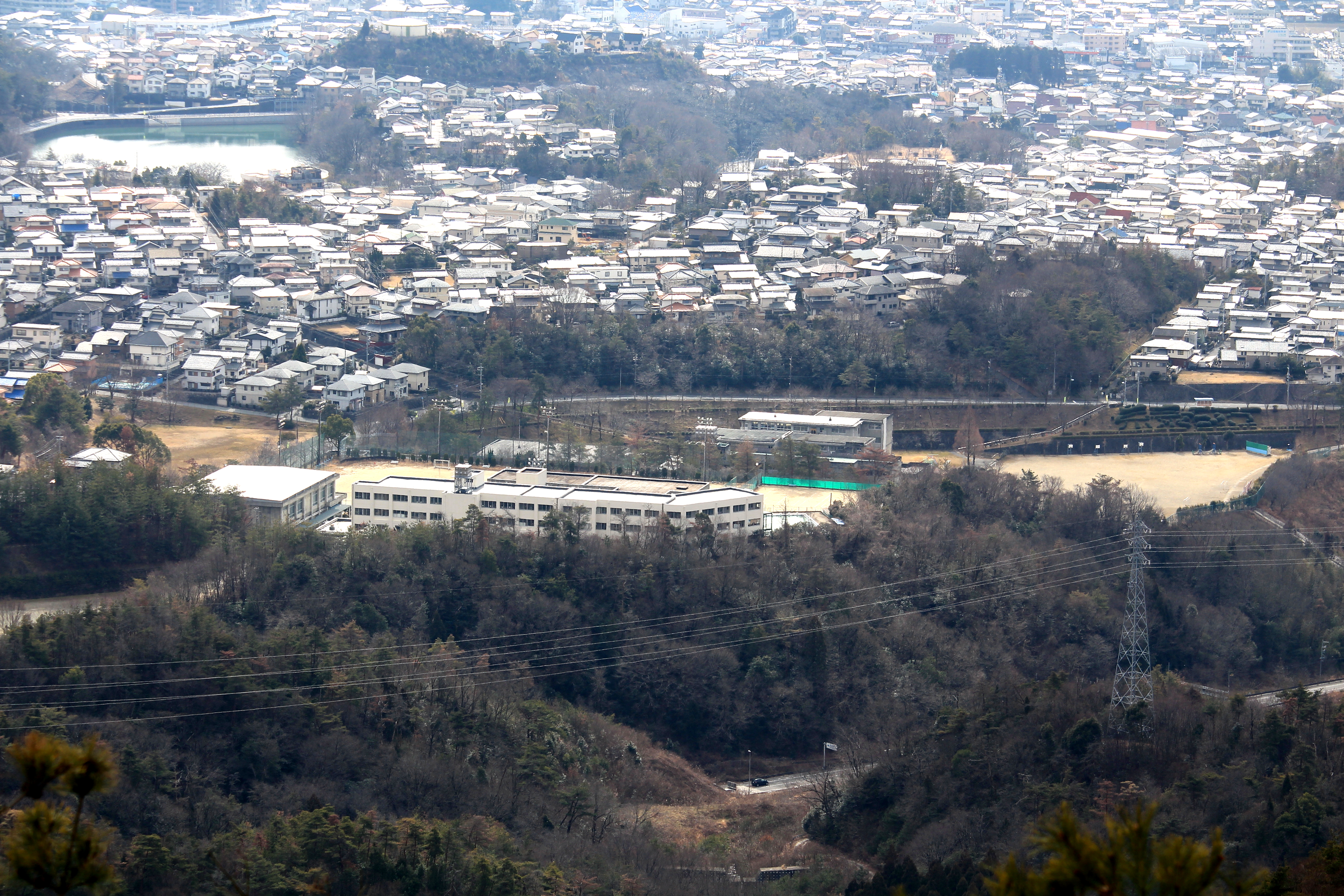 Ryokuyo junior high school seen from Mount meiō, in Gifu prefecture, Japan.